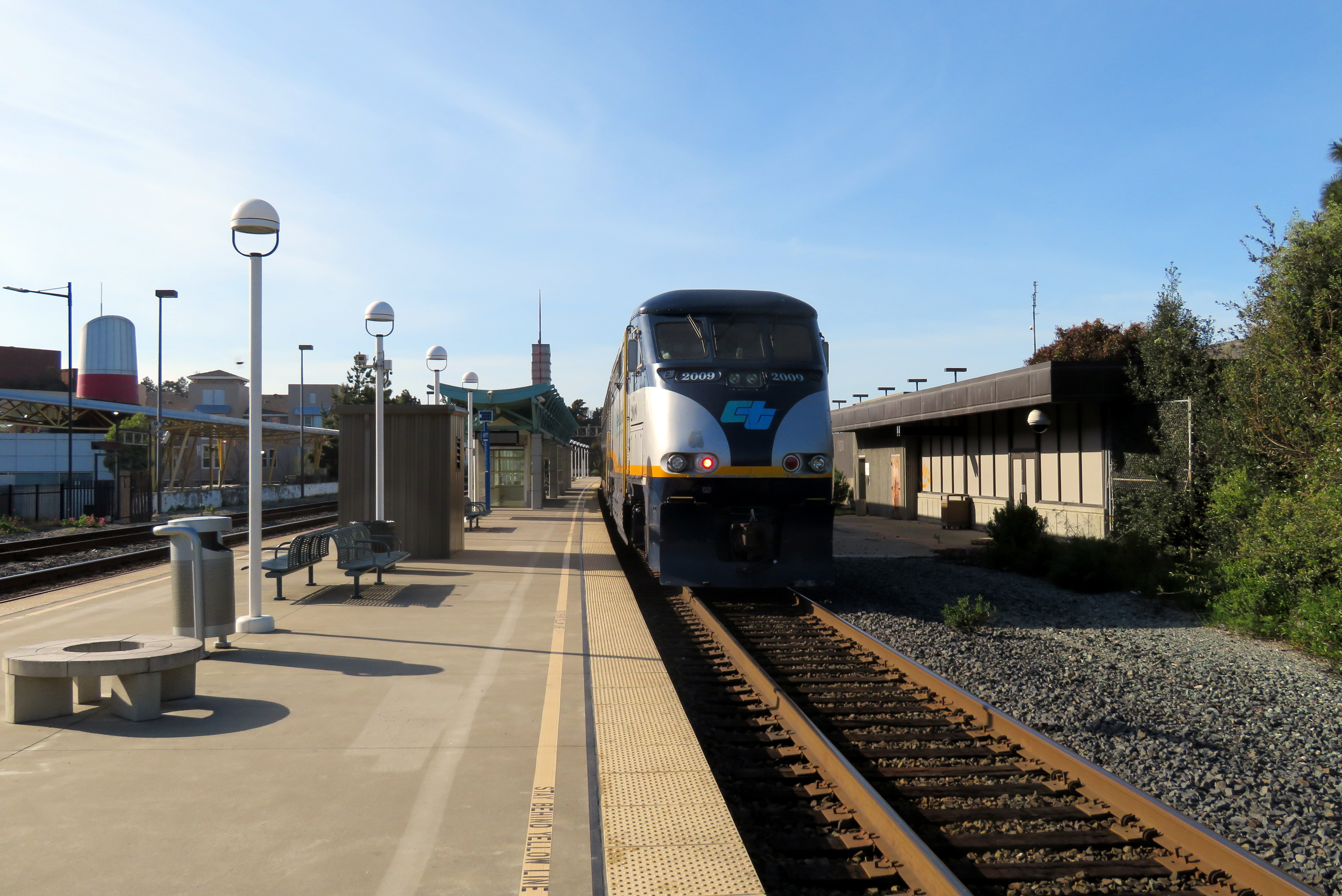 A northbound Capitol Corridor train at Richmond station in April 2018. The former Amtrak shelter is at right.